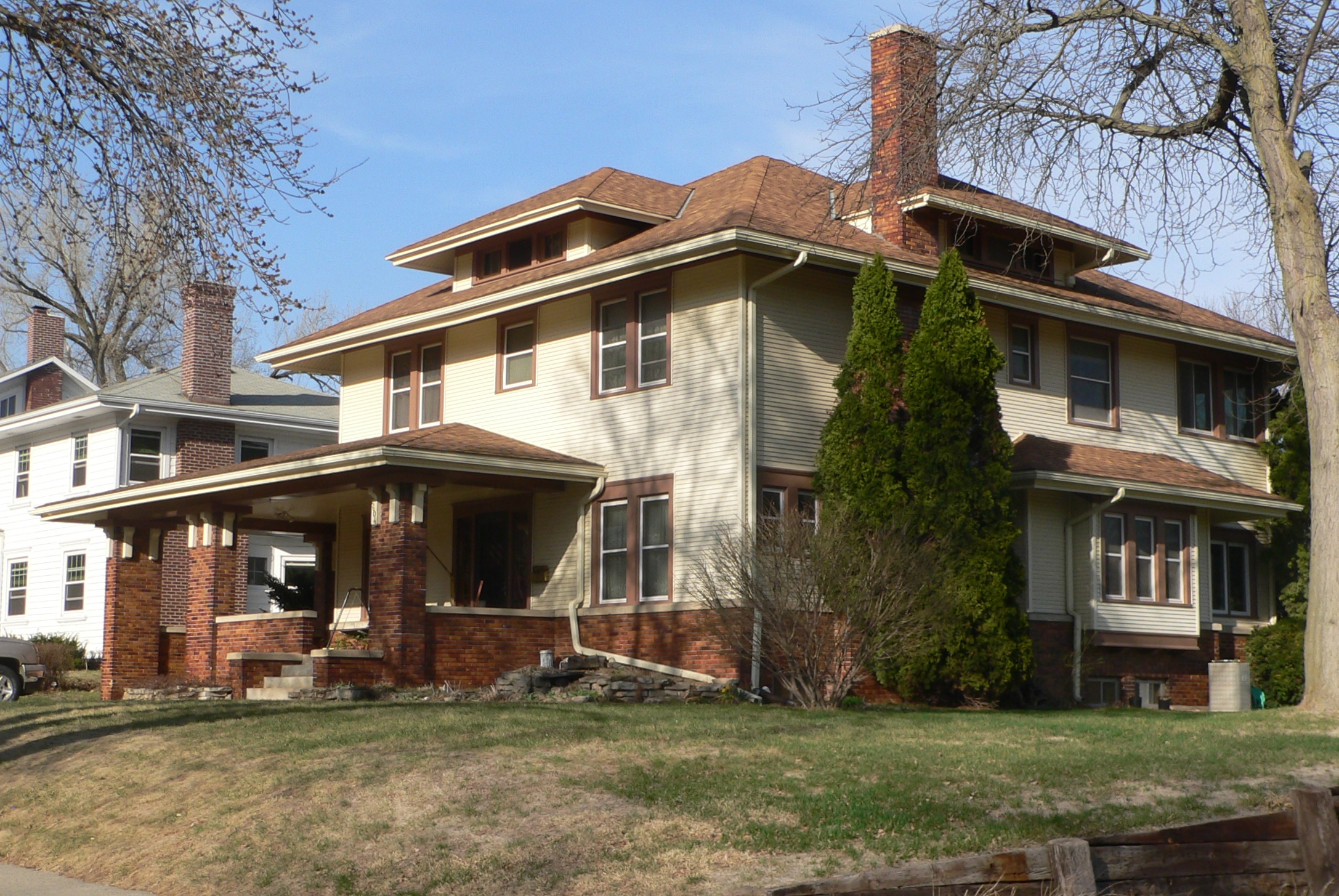 Ben and Harriet Schulein house, located at 2604 Jackson Street in Sioux City, Iowa; seen from the southwest.